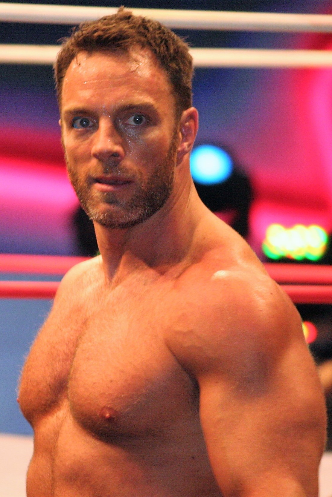 Eli Drake at Bound for Glory in November 2017.